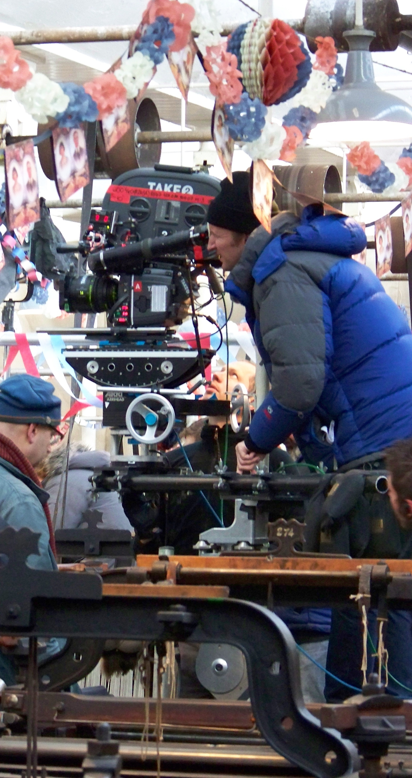 Director Tom Hooper directing The King's Speech at Queen Street Mill Textile Museum.